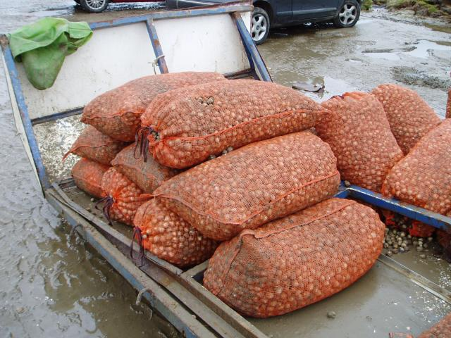 Cockle picking in Morecambe Bay.